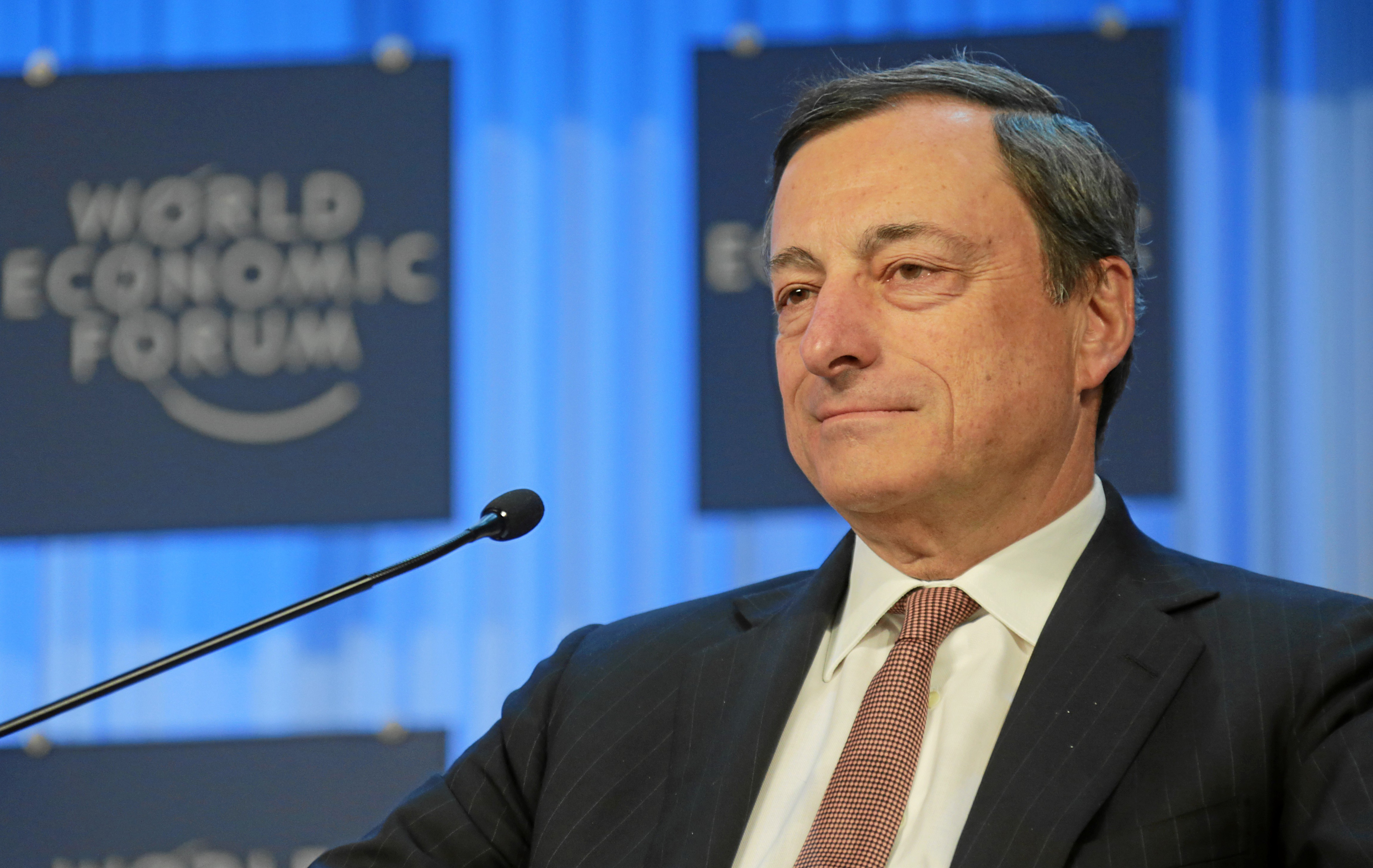 DAVOS/SWITZERLAND, 25JAN13 - Mario Draghi, President, European Central Bank, Frankfurt is captured during the special address session at the Annual Meeting 2013 of the World Economic Forum in Davos, Switzerland, January 25, 2013. . . Copyright by World Economic Forum. . Remy Steinegger